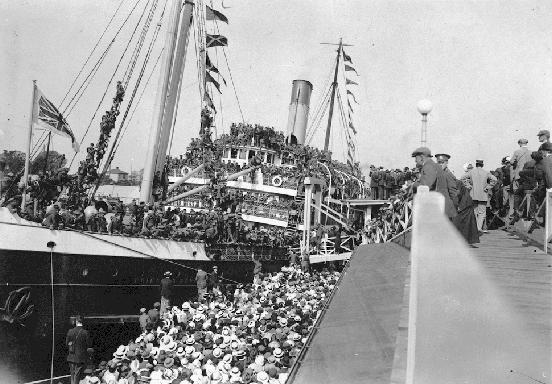 Princess Sophia (steamship) leaving Victoria, BC with Canadian troops for the Great War, ca 1915